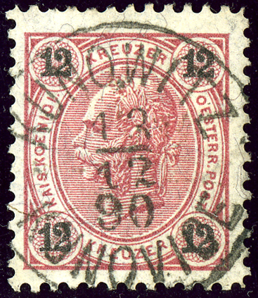 Austrian KK 12 kreuzer stamp, bilingual cancelled Kunowitz - Kunovice in 1890 (Moravia)